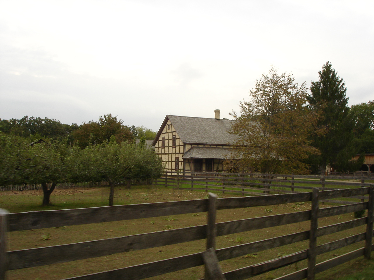 Koepsell House, Old World Wisconsin, off WI 59 Eagle